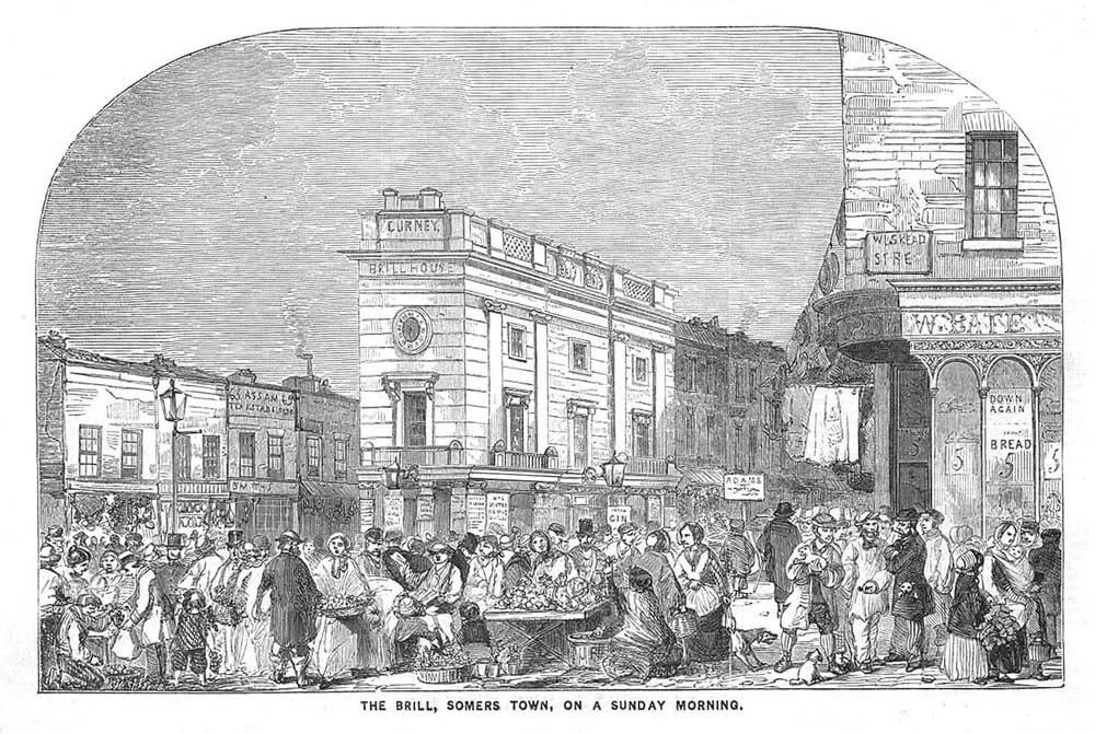 The Brill Market in Somers Town, London—1858. Published in the Illustrated News of the World, London.